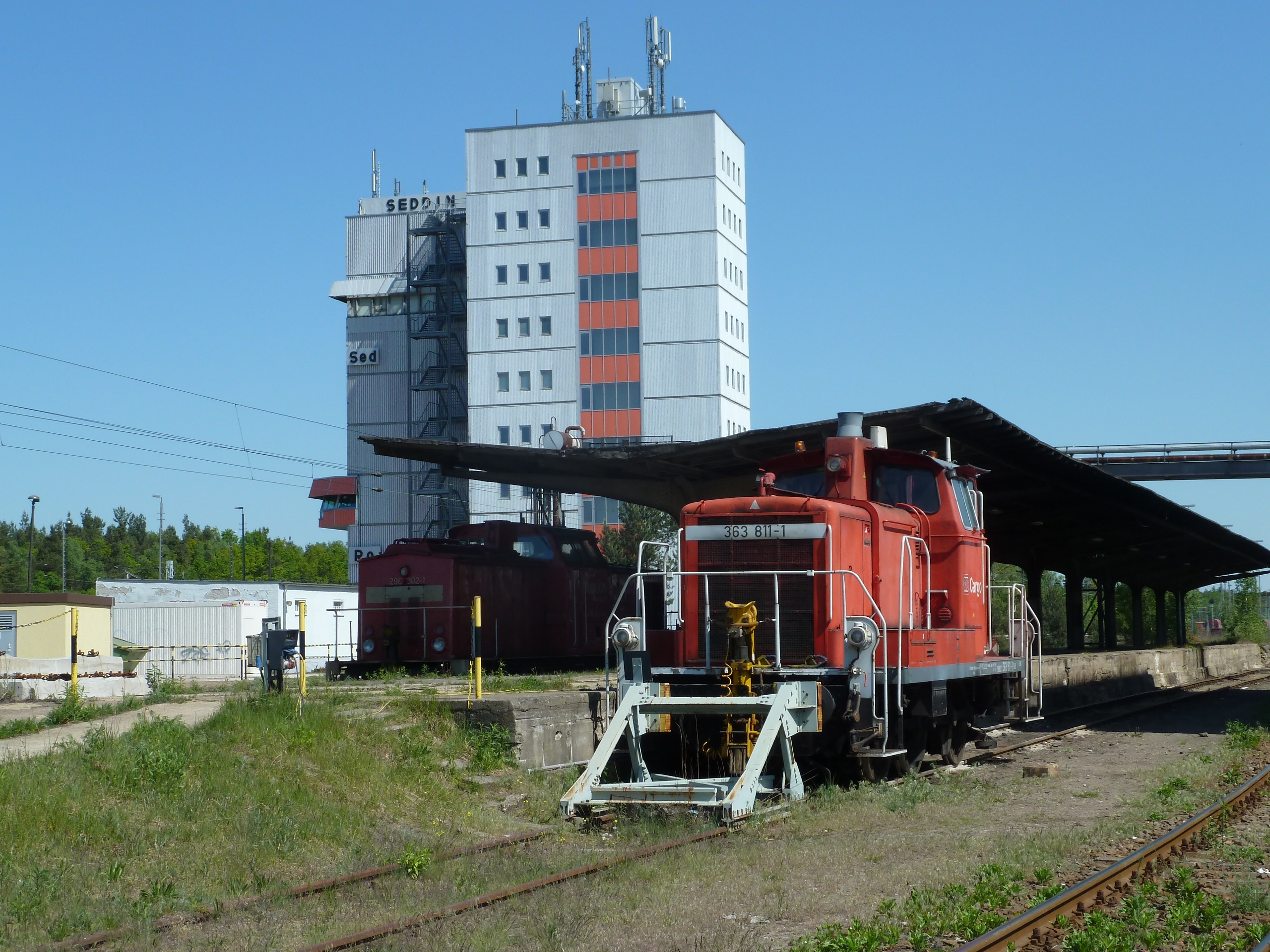 Seddin railway station, signal tower